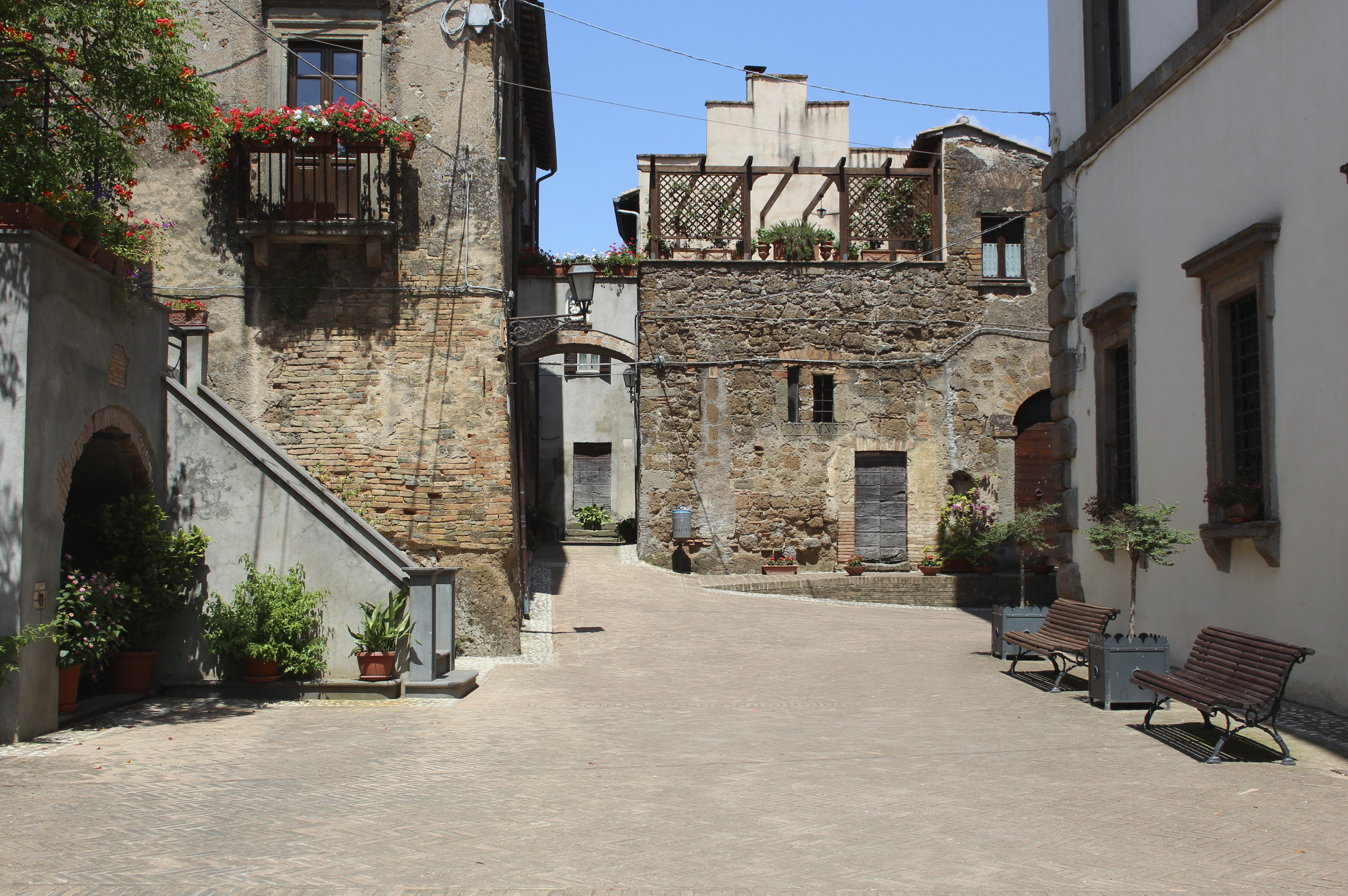 Mugnano in Teverina, hamlet of Bomarzo, Province of Viterbo, Lazio, Italy